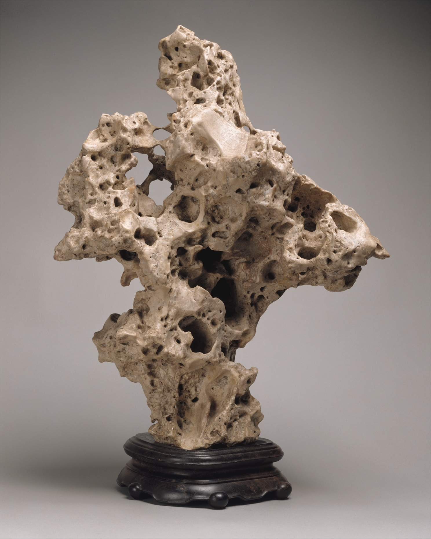 China; Scholar's rock; Sculpture